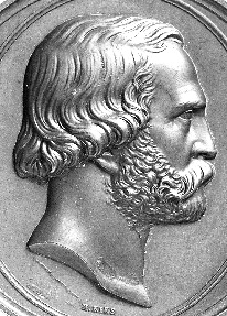 Johann Adam Ries, Medailleur, Selbstporträt, um 1880